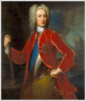 Portrait of John Campbell, 2nd Duke of Argyll (1680–1743)